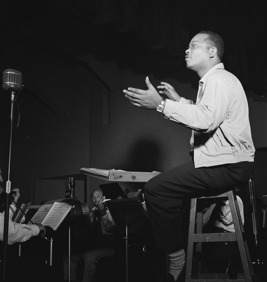 Sy Oliver, New York, N.Y., ca. Sept. 1946 (Photograph by William P. Gottlieb)